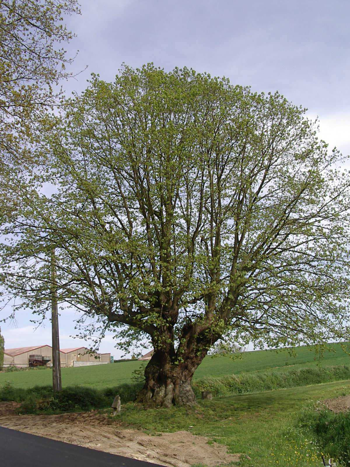 Tilleul de Joncquoy à Aubers